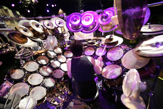 Terry Bozzio playing on his large drum kit known as the 'SS Bozzio'.